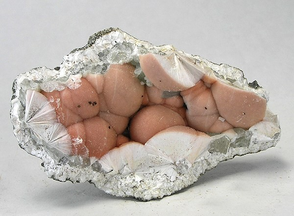 Pectolite Locality: Millington Quarry (Morris County Crushed Stone County Quarry; Tilcon Quarry), Bernards Township, Somerset County, New Jersey, USA (Locality at ) Size: 9.6 x 5.9 x 2.9 cm. Pectolites are probably the most significant mineral specimens to come out of the Millington Quarry recently, and in fact are some of the best in the world for the species. They are distinctive for their gorgeous peachy-mauve color, and perfectly rounded forms. This is a shallow vug of these mammillary forms, and you can see around the periphery how they are formed from thousands of densely-packed radial acicular crystals.